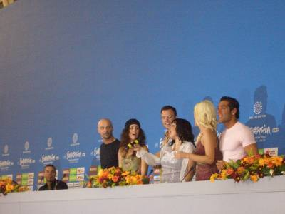 Press conference for Switzerland at Eurovision 2006. Taken by Chris Melville